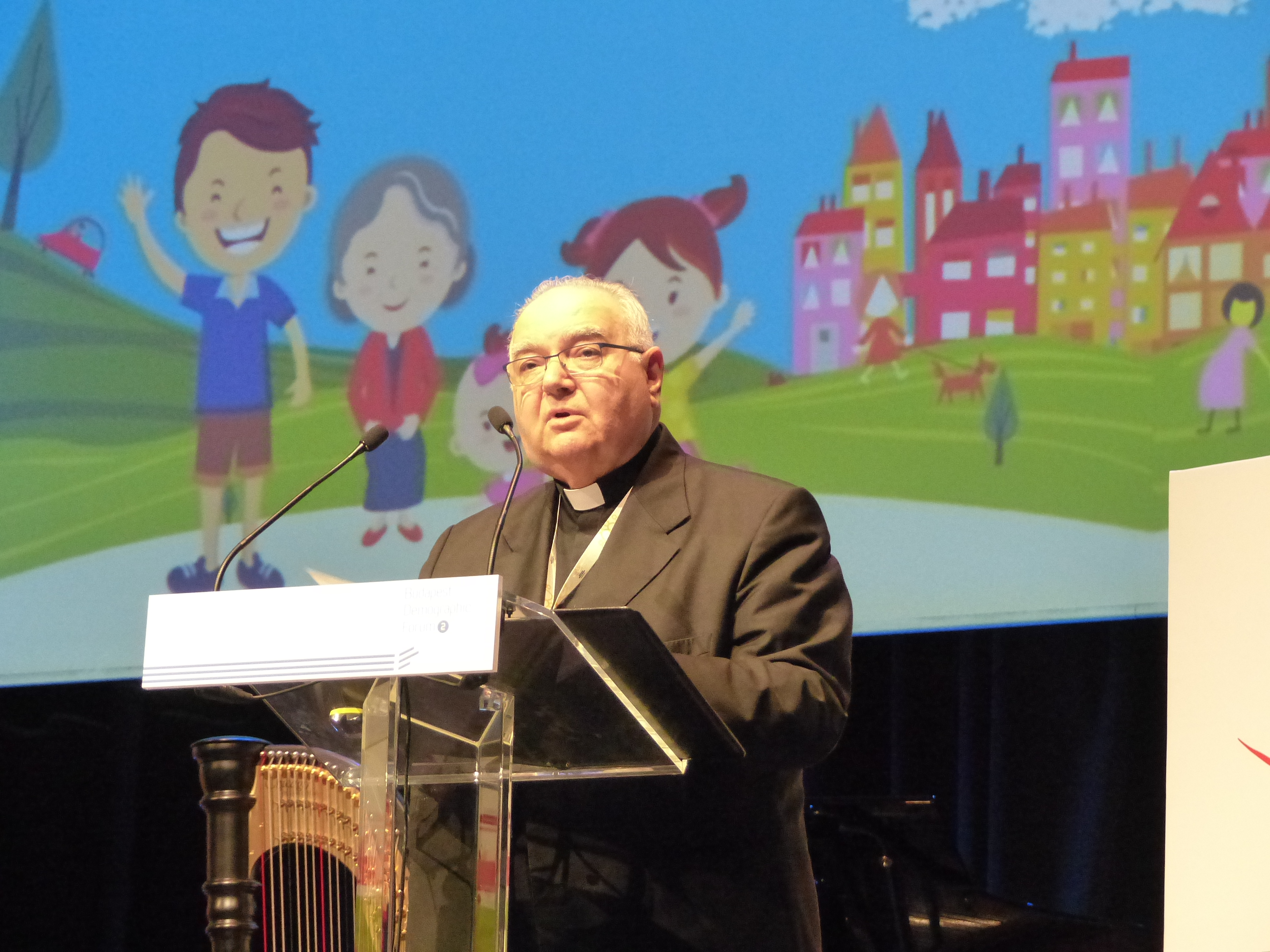 S.E.R. Alberto Bottari de Castello. Archbishop of Opitergium Apostolic Nuncio to Hungary. Taken on the 25th of May, 2017. Budapest Demographic Forum 2 Budapest, Kongresszusi Központ. (Budapest Family Summit 25 – 28 May 2017)